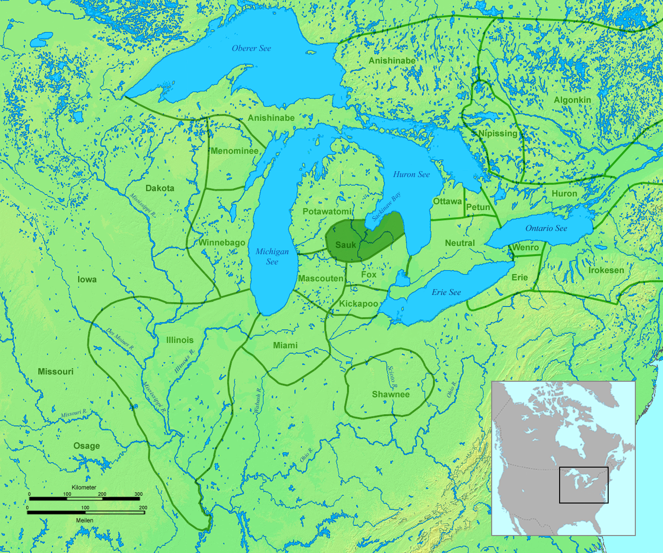 Tribal territory of Sauk probably before 1650